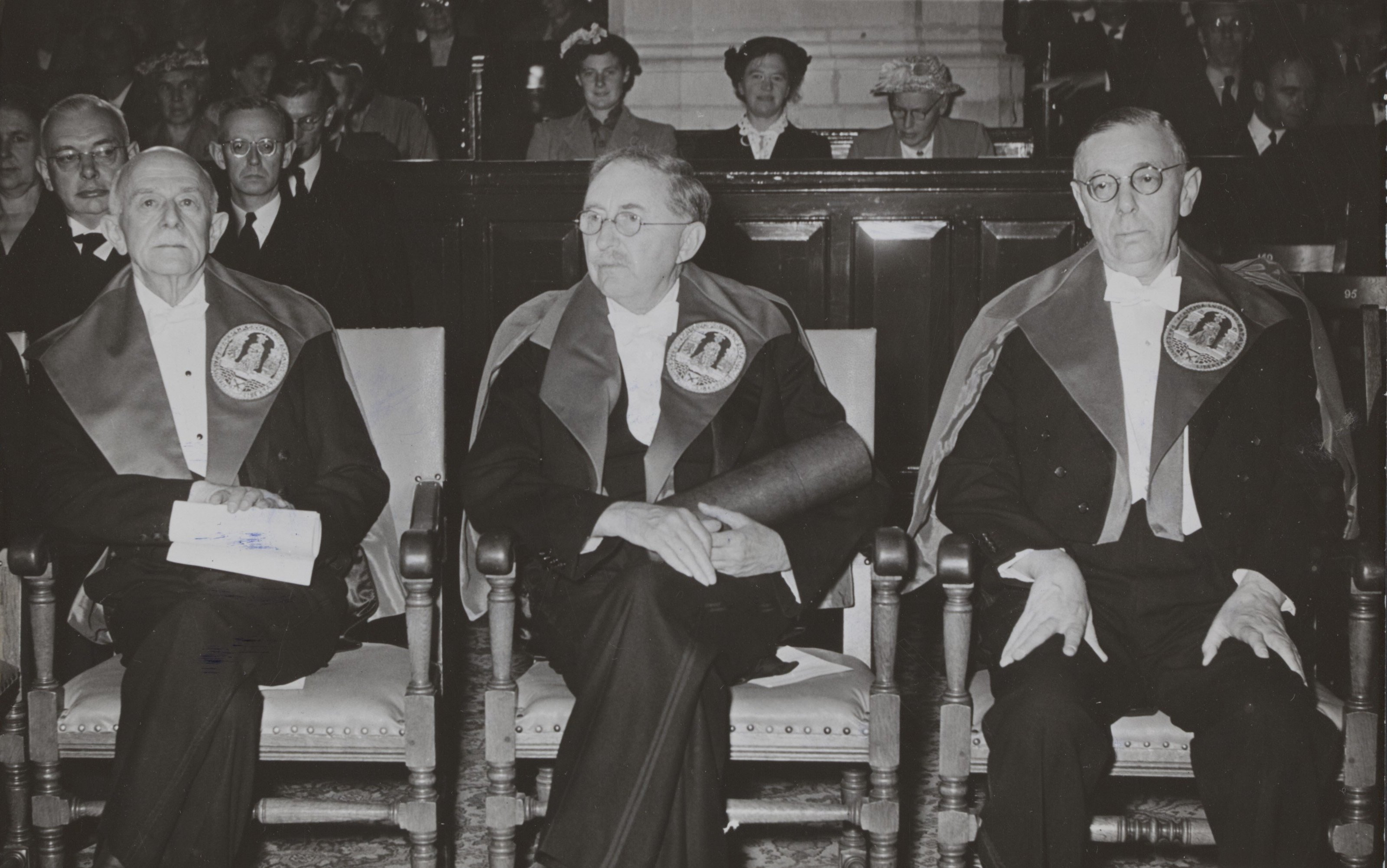 Three honorary doctorates at Leiden University, 1954. From left to right Jean Schlumberger, E.M. Forster and Victor van Vriesland. Leiden, 23 June 1954